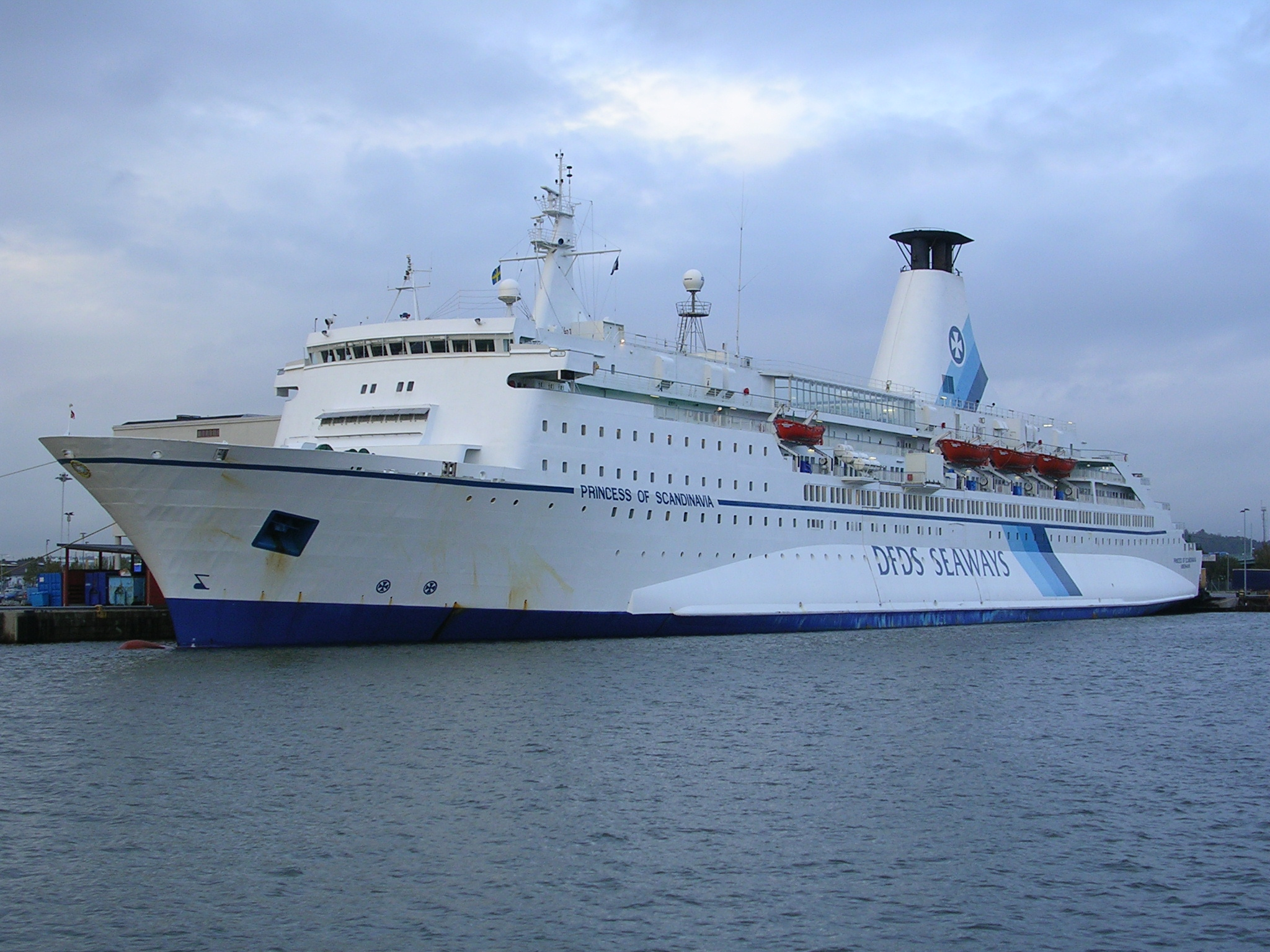 M/S Princess of Scandinavia in Gothenburg, 6th October 2006.